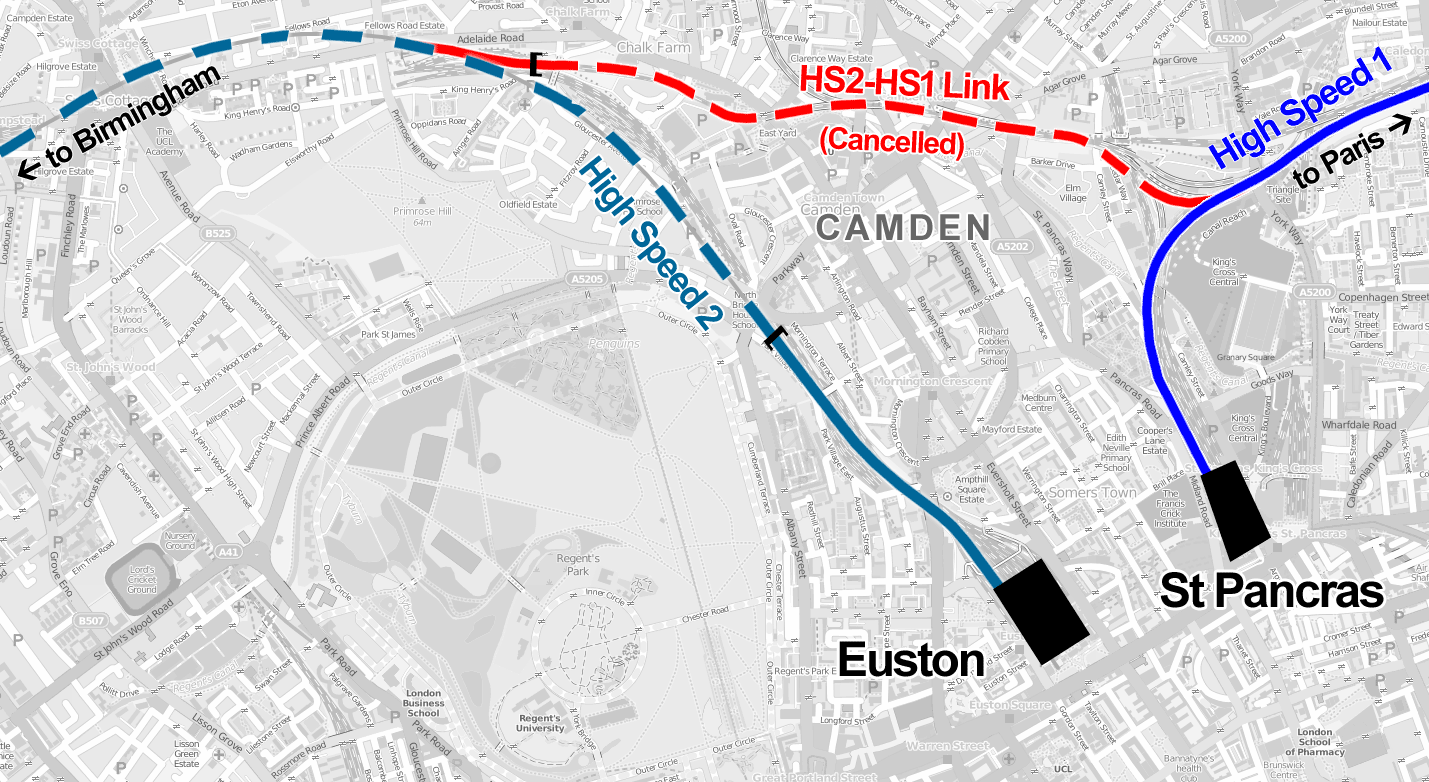 map showing the proposed railway line linking the High Speed 1 and High Speed 2 lines in North London, UK, enabling the Regional Eurostar services This map may be incomplete, and may contain errors. Don't rely solely on it for navigation.